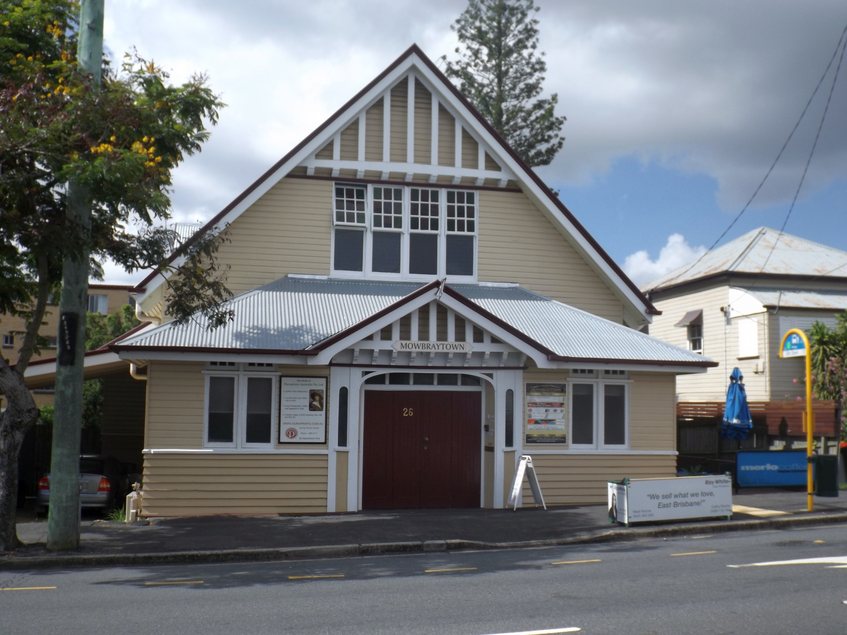 Photo of Mowbraytown Presbyterian Church Group in East Brisbane, Brisbane, Queensland, Australia.